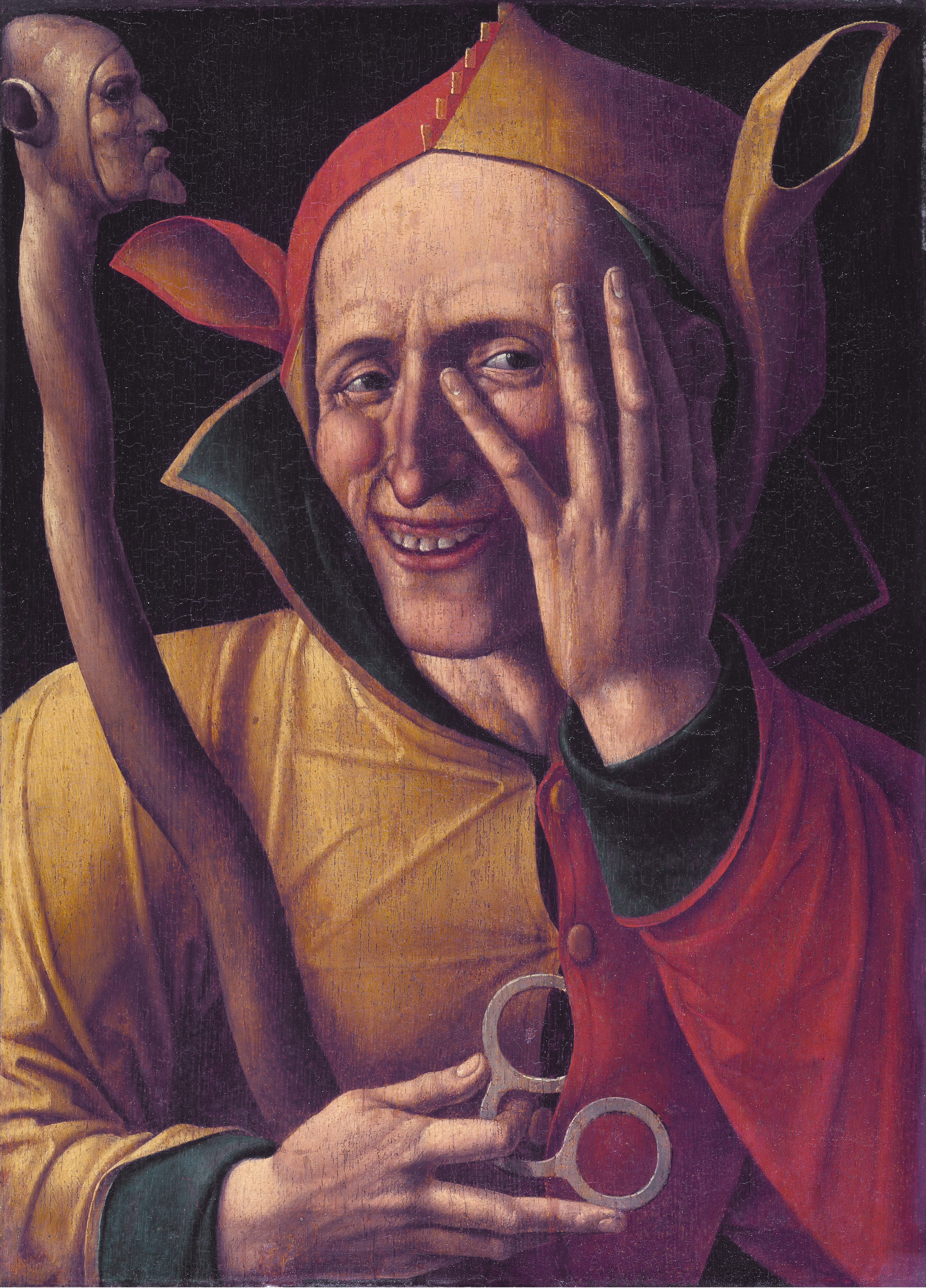 The laughing jester // Art museum of Sweden, Stockholm